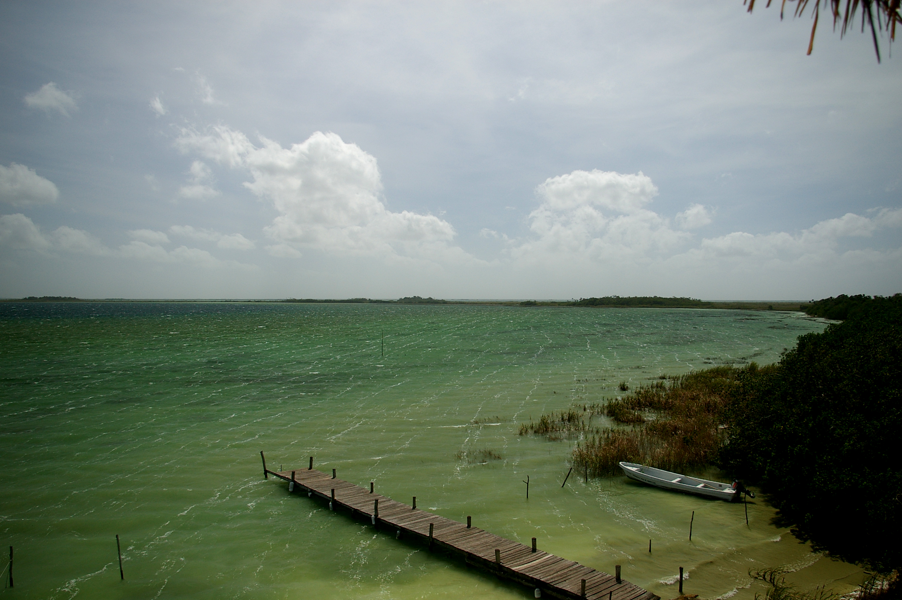 Muyil Lagoon, Sian Ka'an Biosphere Reserve